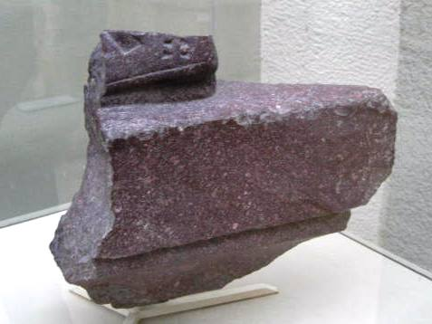 Heel portion of the statuary group of Tetrachs. Made out of porphyry. Found at the Bodrum Mosque excavations. Late 3rd-4th century. Inv. 5848 T.